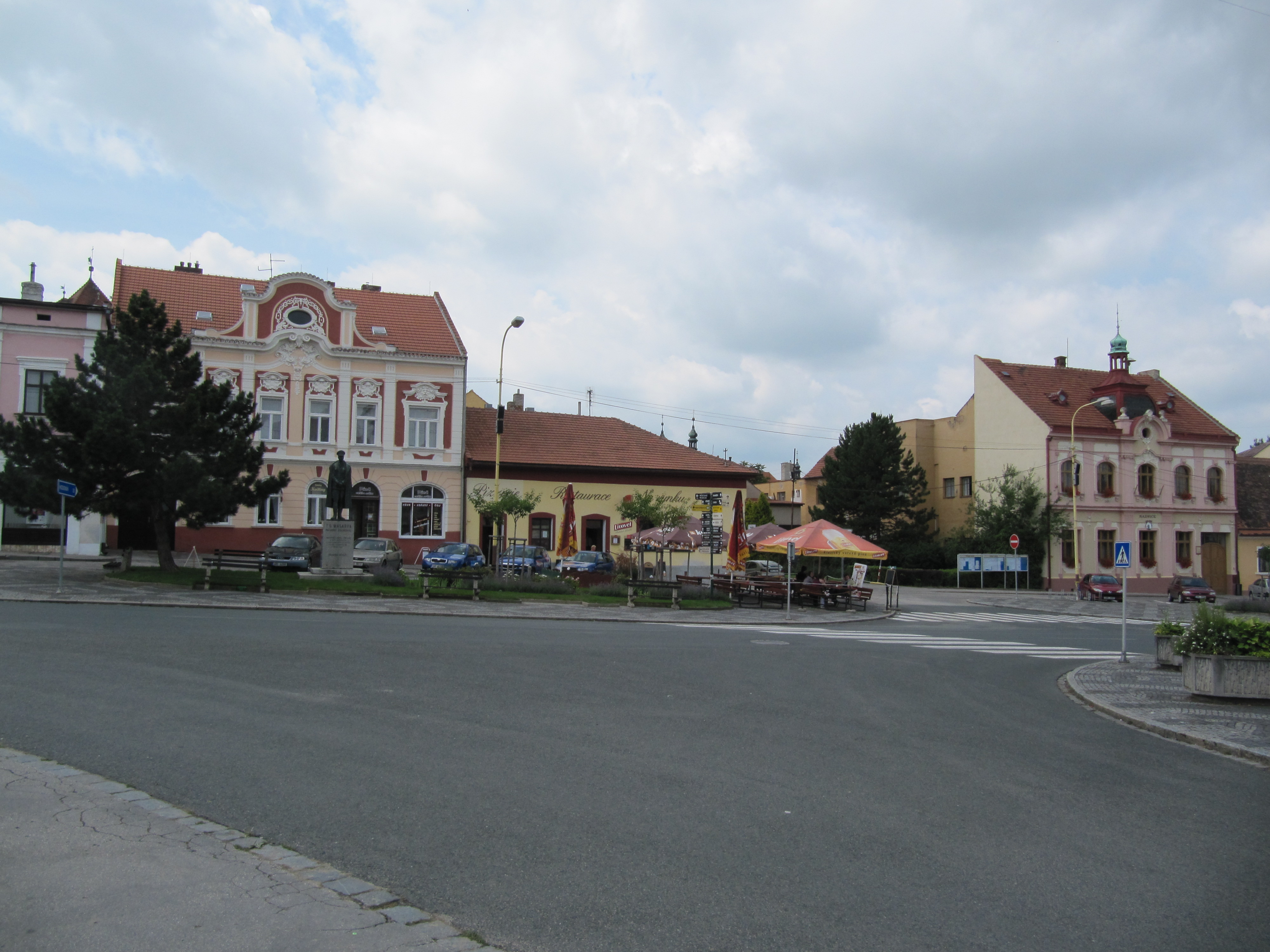 Strážnice, Hodonín District, Czechia..